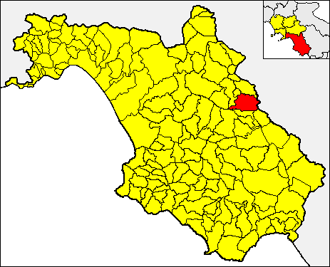 Locator map of the municipality of Polla (red) within the Province of Salerno